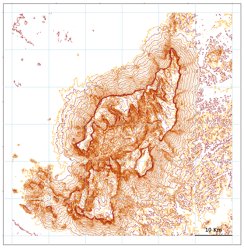 Contour map of Neblina massif. This is a draft. Will improve soon.